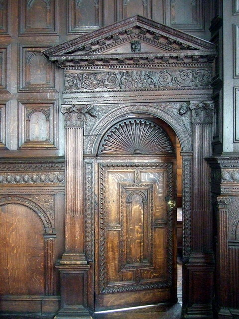 Oak panelling at The Red Lodge The designs, copied from pattern books, include both naturalistic and grotesque motifs.